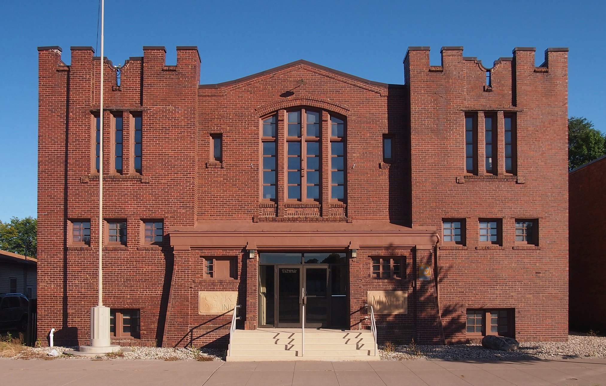 St Peter Armory, 419 S Minnesota Ave, St Peter, Minnesota, USA. Viewed from the northwest.